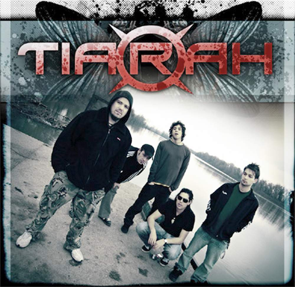 band Tiarah